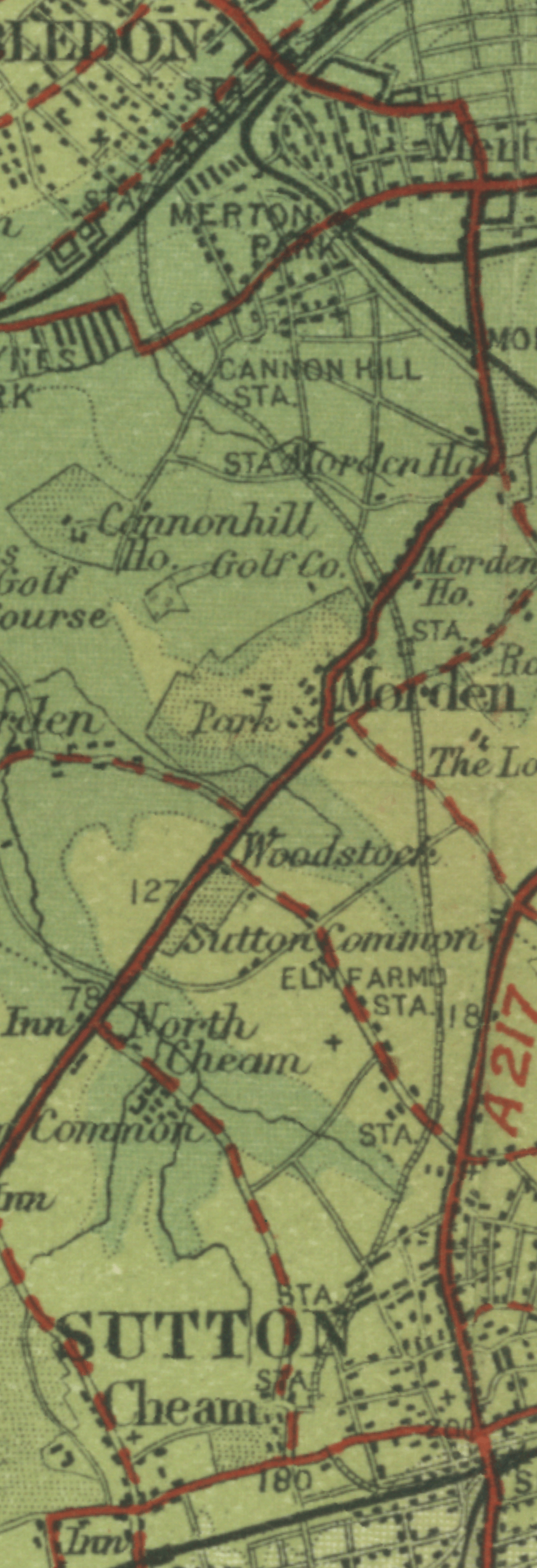 Route of Wimbledon and Sutton Railway with stations proposed and approved in 1910.